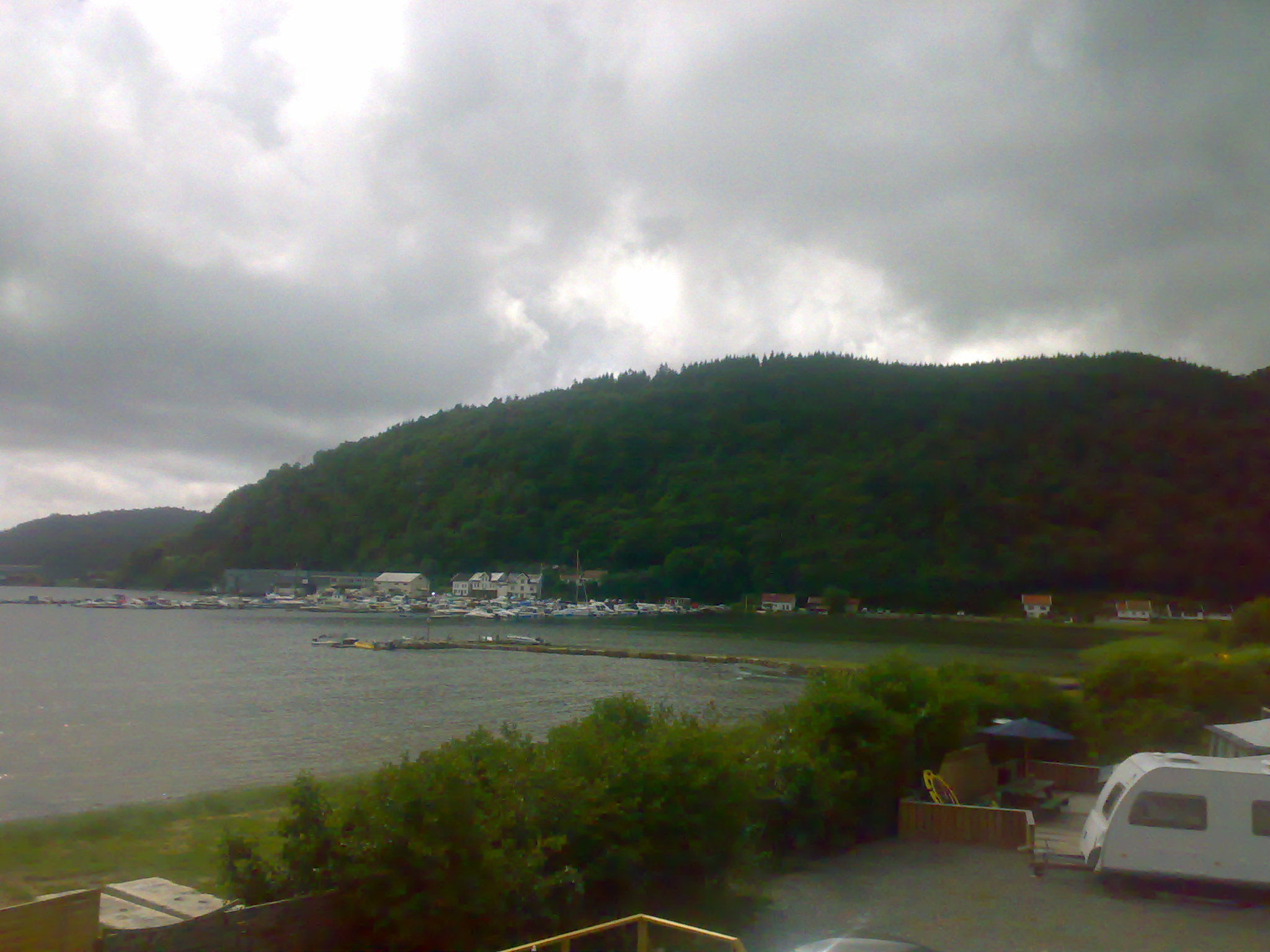 Agnefest in the Rosfjorden, Lyngdal, Norway